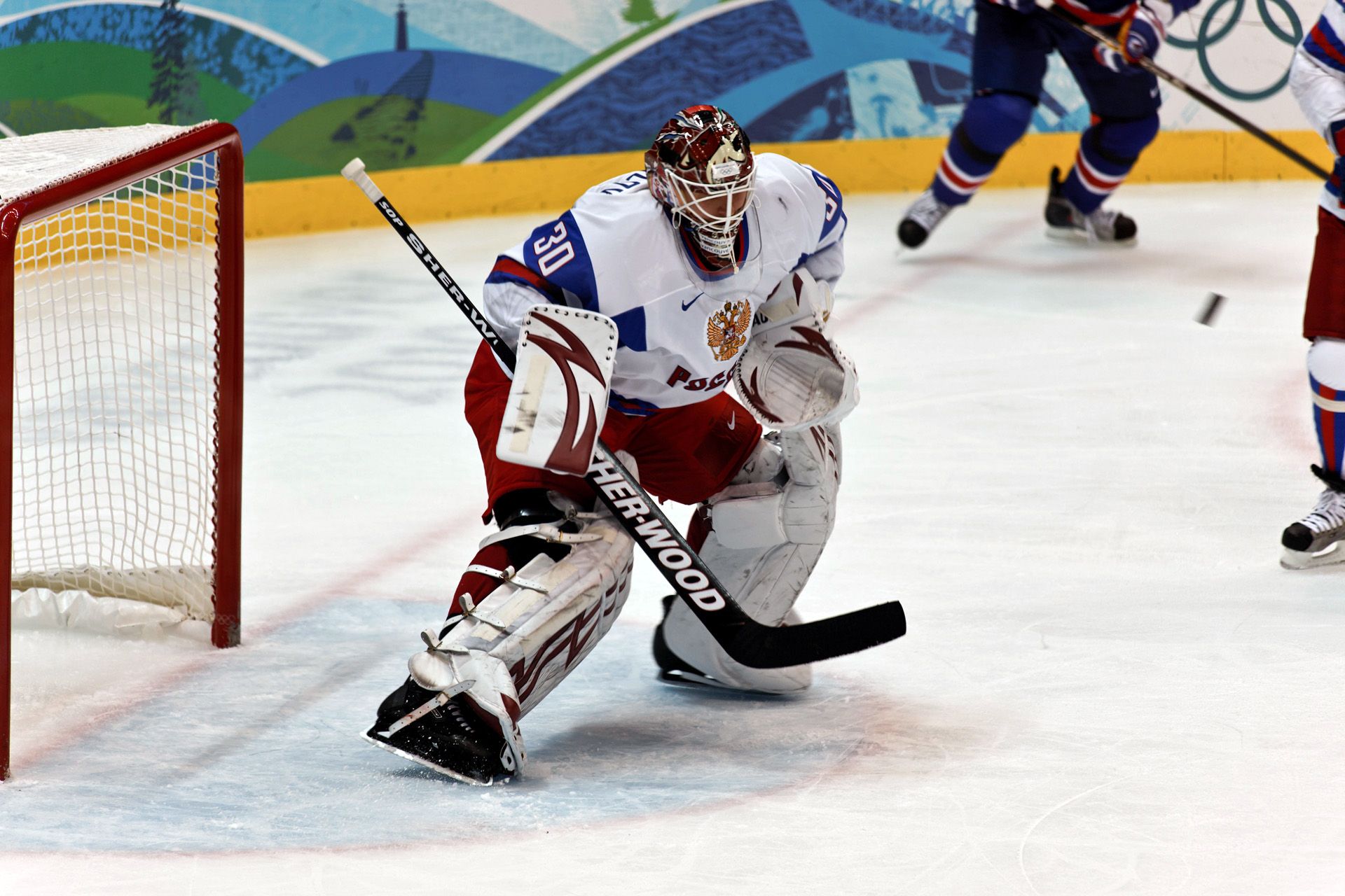 Russia goaltender Ilya Bryzgalov makes a save in a game against Slovakia during the 2010 Winter Olympics